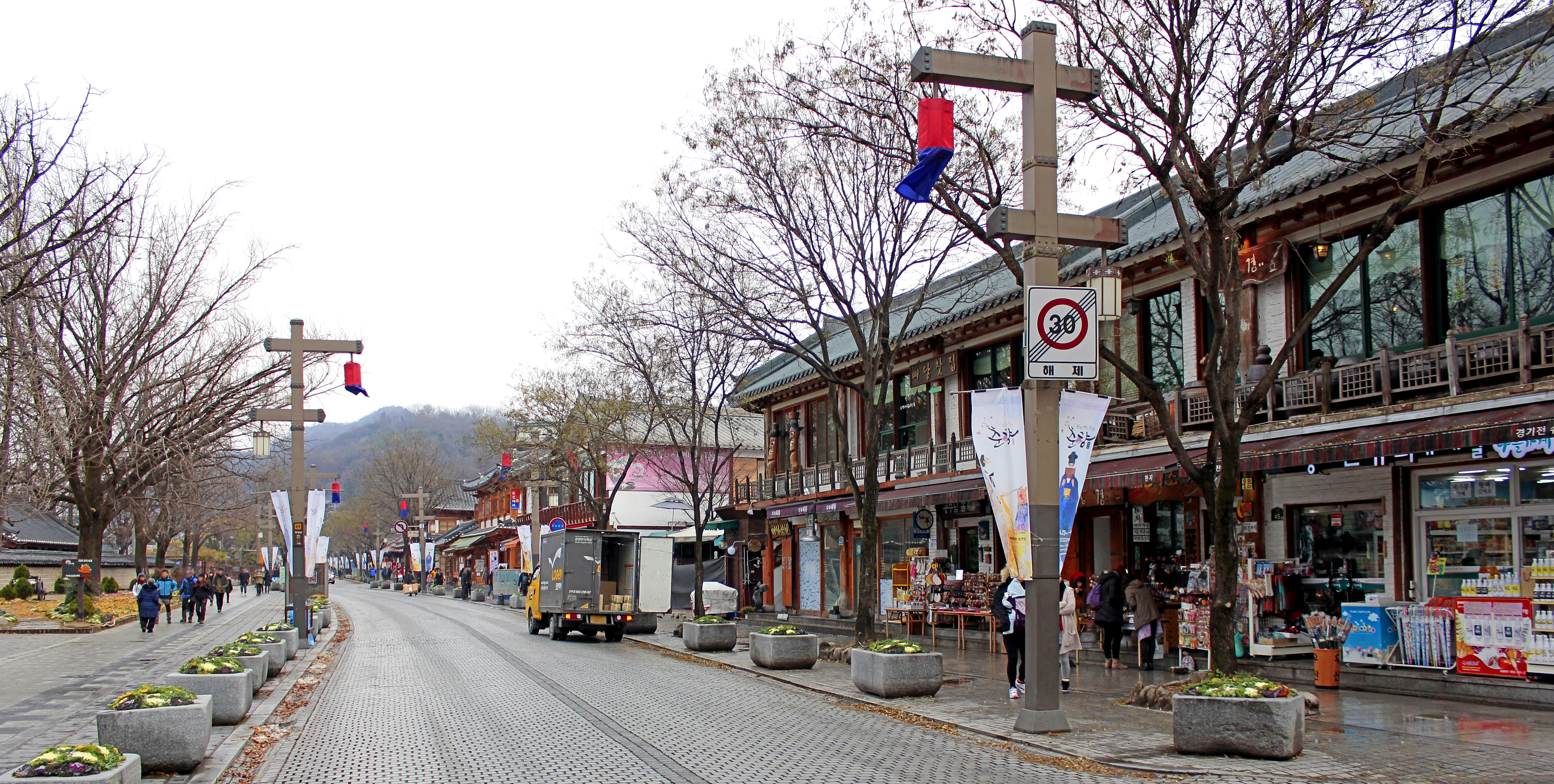 Taejo-ro, Jeonju